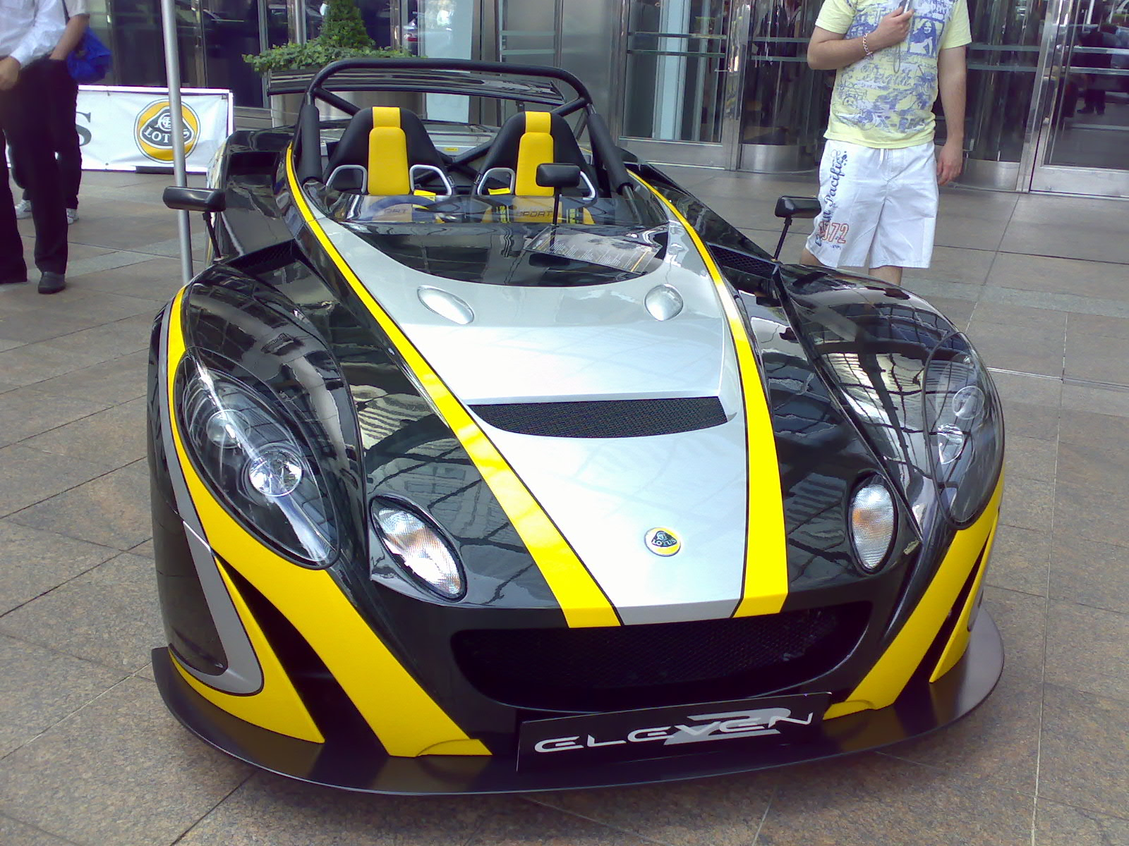 Pic taken by me during the Canary Wharf motor expo in June 2007.